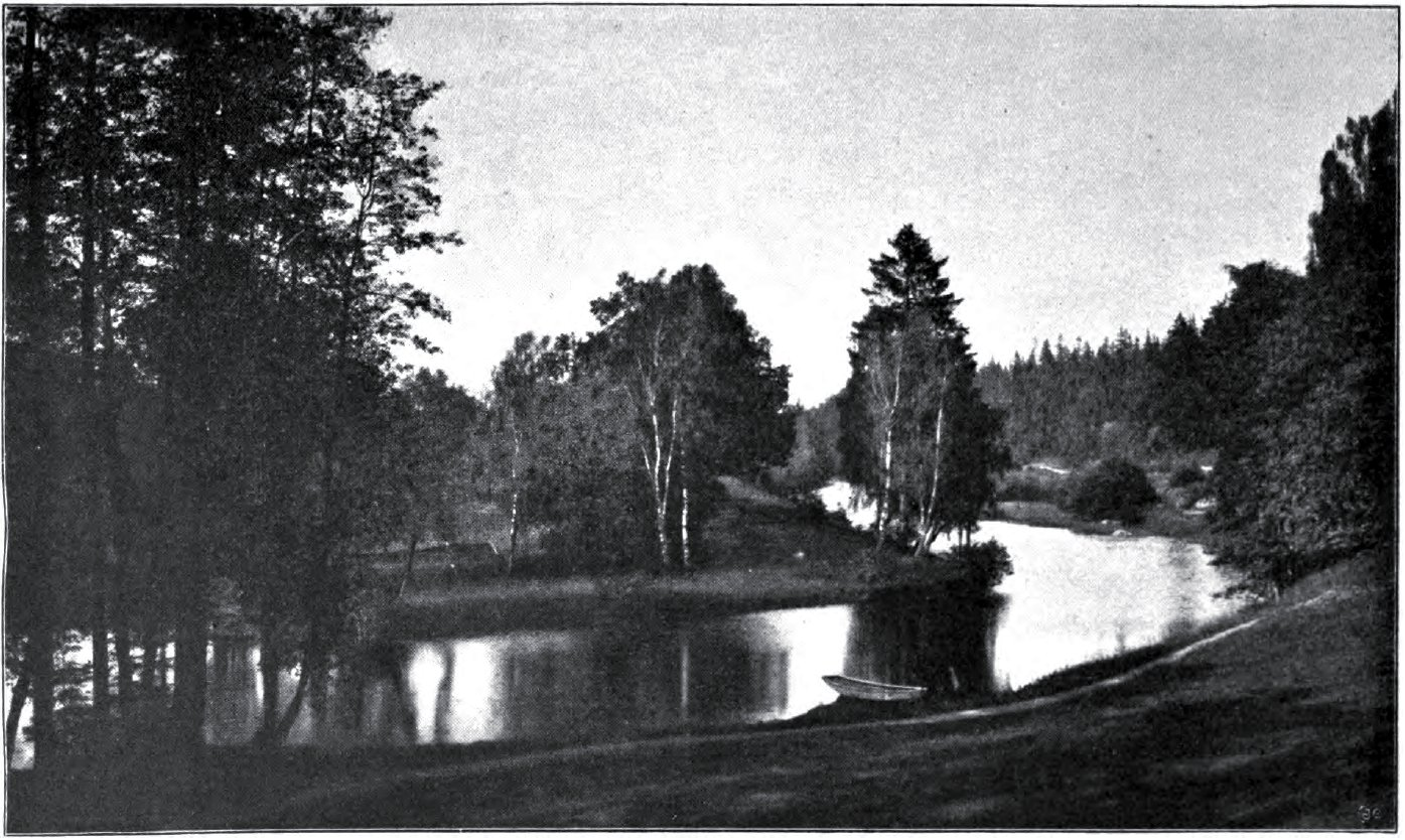 Photo:"Lyckeby å" by Joh. E. Thorin from Nils Holgerssons underbara resa genom Sverige by Selma Lagerlöf.